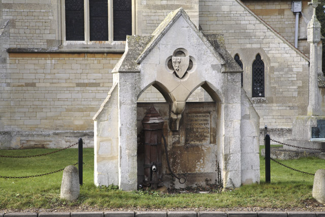 Village pump and drinking fountain at the crossroads outside St James the Greater parish church, Waresley, Cambridgeshire (formerly Huntingdonshire)